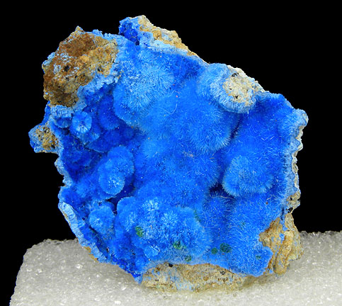 Cyanotrichite Locality: Grand View Mine (Last Chance Mine; No. 1 Pat claim 3591; No. 5 Pat claim 3592a; No. 4 Pat claim 3592a; Canyon Copper Mine; Grand Canyon Mine), Cape Royal, Horseshoe Mesa, Grand Canyon National Park, Grandview District, Coconino County, Arizona, USA (Locality at ) Size: 3.8 x 3.7 x 1.2 cm. Cyanotrichite is a Copper Aluminum sulfate and well-crystallized specimens like this one are few and far between. It was found in the mid 1960's in the Grand View Mine, which existed in the Grand Canyon. The mine is long defunct, but when specimens were being recovered, they were some of the most incredible, and brightly colored specimens from Arizona, or anywhere else for that matter. This specimen is filled with dozens upon dozens of excellent, electric blue color, acicular (needle-like) radiating aggregates or "sprays" of Cyanotrichite with minor Malachite on matrix. The needles of Cyanotrichite are very delicate, but are equally stunning to view. Please note that there have been almost no specimens from this locality available on the market for a very long time. Ex. Richard Kosnar Collection.